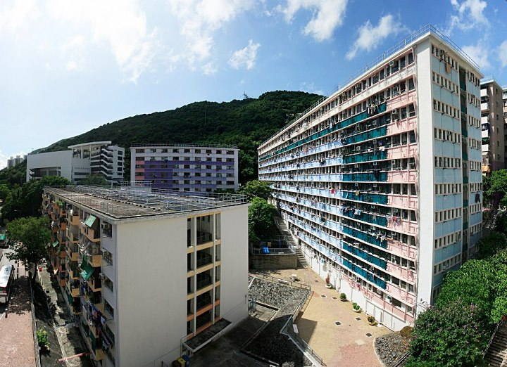 Yue Kwong Chuen